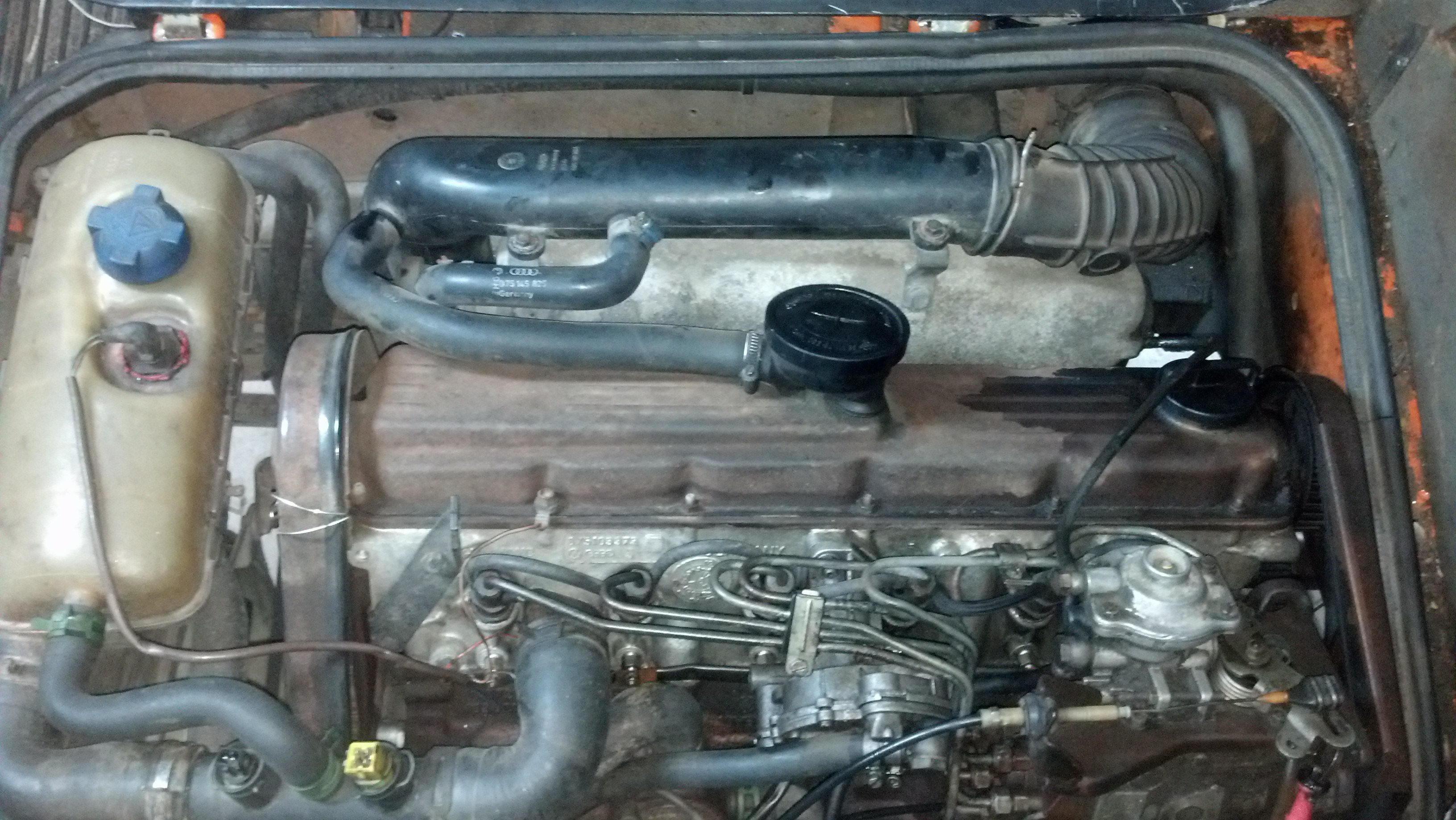 Volkswagen LT